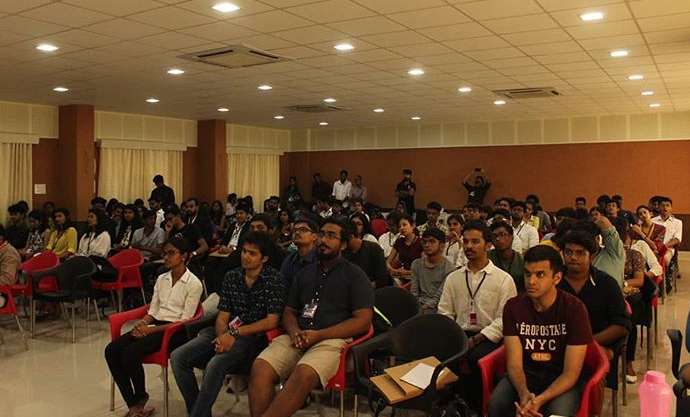 Participants and Organizers at the NUALS Parliamentary Debate, 2019 arrive for the final award ceremony.